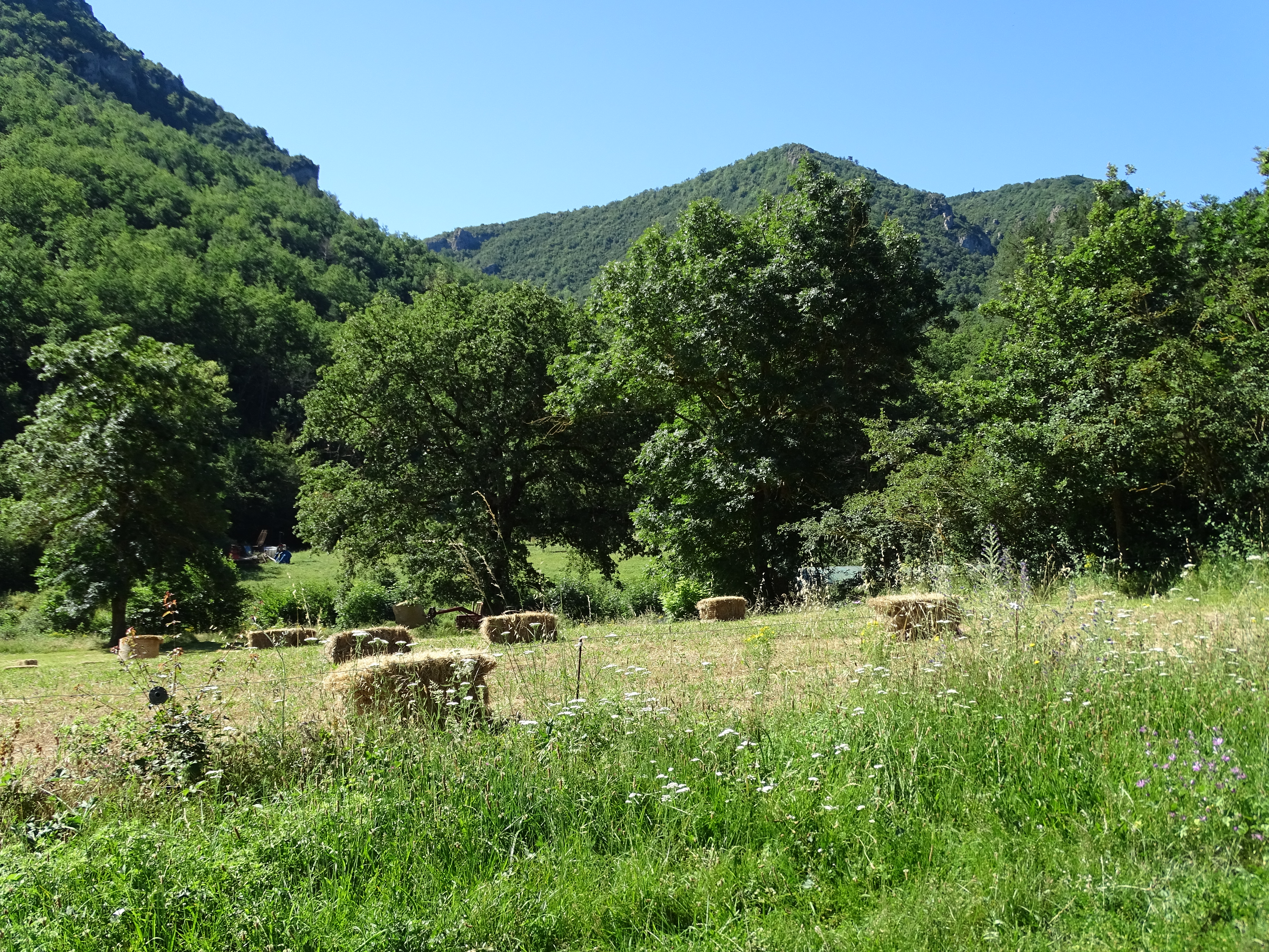 View of Savignan in Auriac, Aude, France